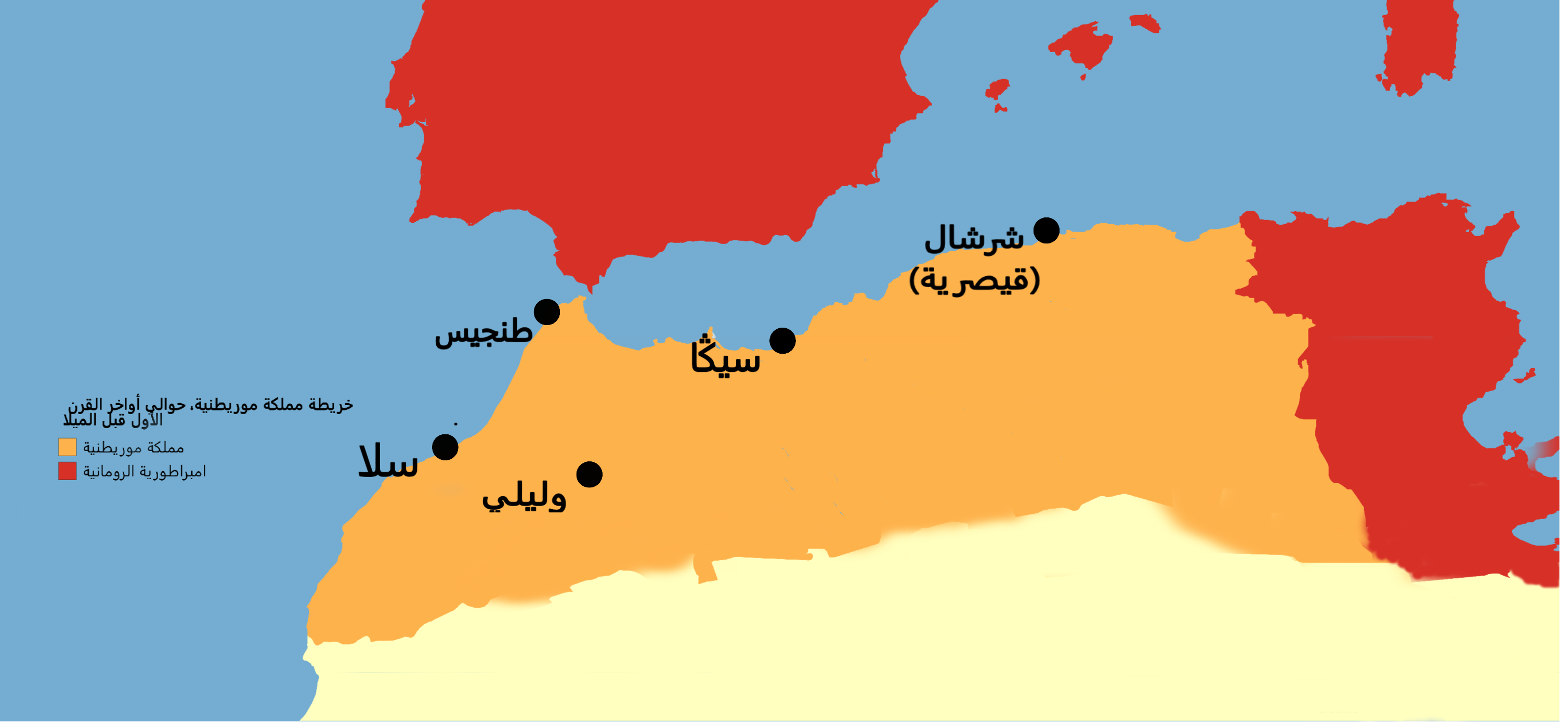 Map of the Kingdom of Mauritania in Arabic